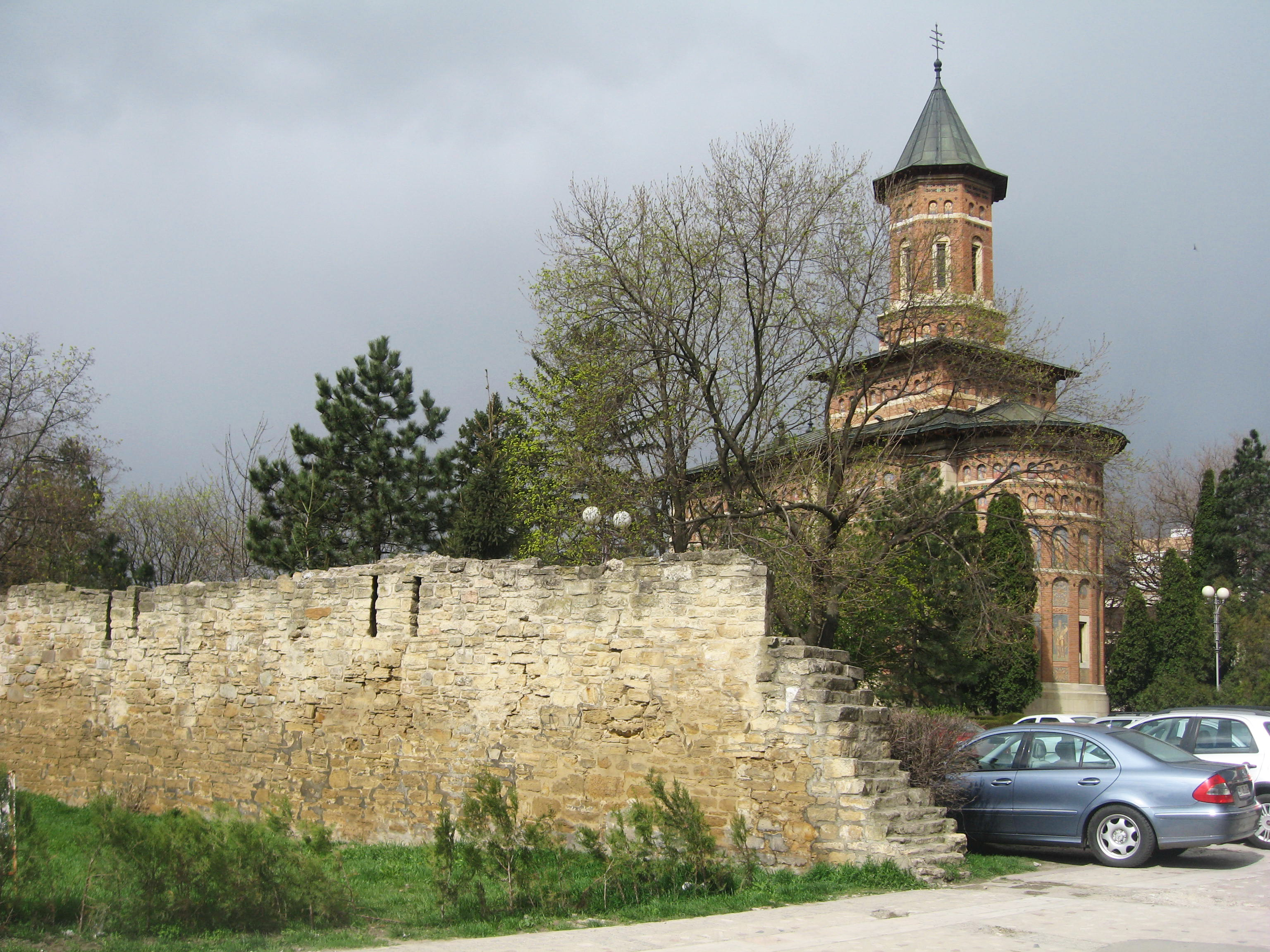 Biserica Sf. Nicolae Domnesc din Iași, România